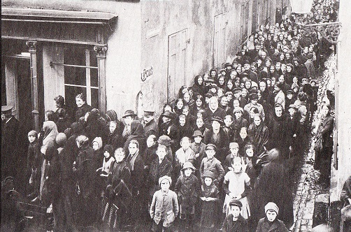 Poverty in Hanover, Weimar Republic, 1918-1919.